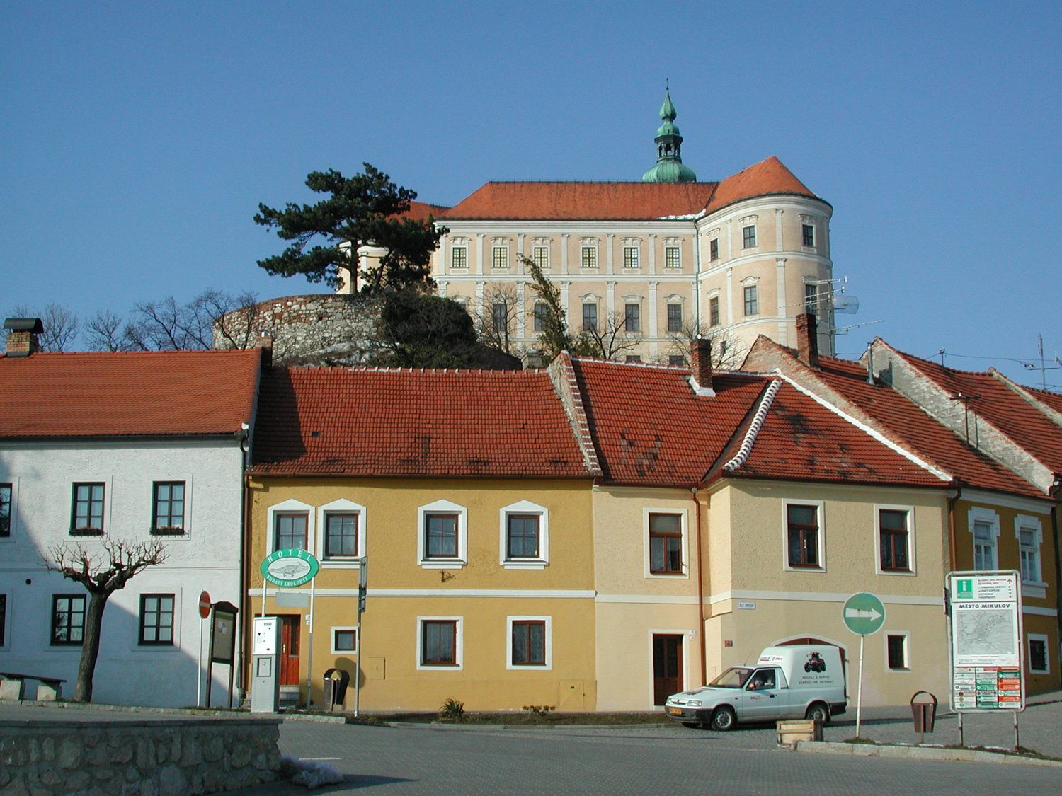 Historic town center of Mikulov in southern Moravia, Czech Republic